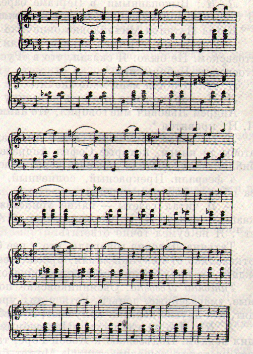 Waltz by Leo Tolstoy